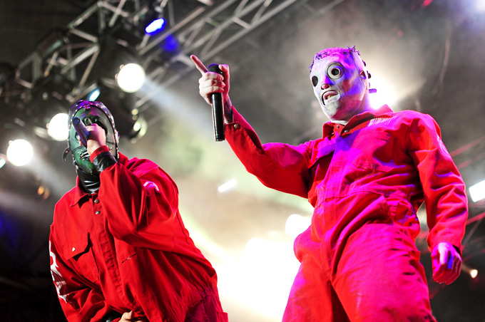 Soundwave Festival 2012 Do Not Publish